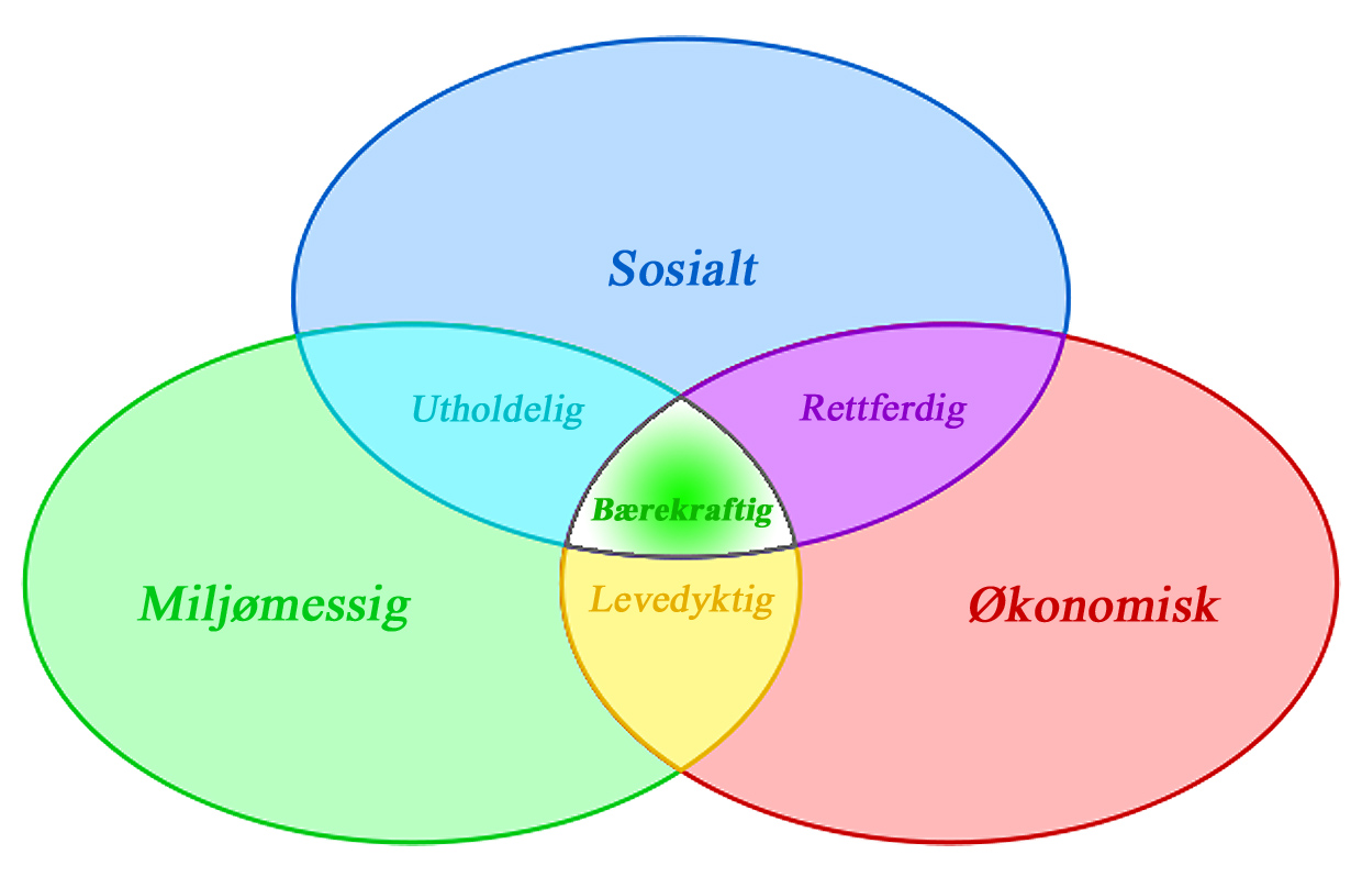 Norwegian translation / adaption of user Nojhan's English original at File:Sustainable_development.svg